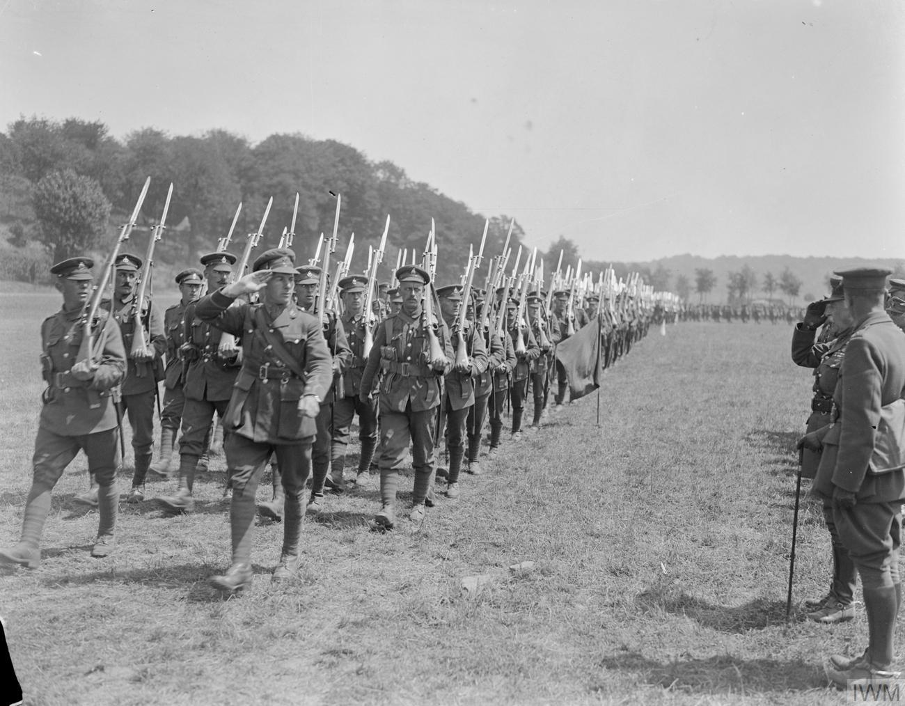 The Royal Visits To the Western Front, 1914-1918 Troops of the 2nd Battalion, Royal Sussex Regiment marching past Prince Arthur, Duke of Connaught, near Bruay, 1 July 1918.